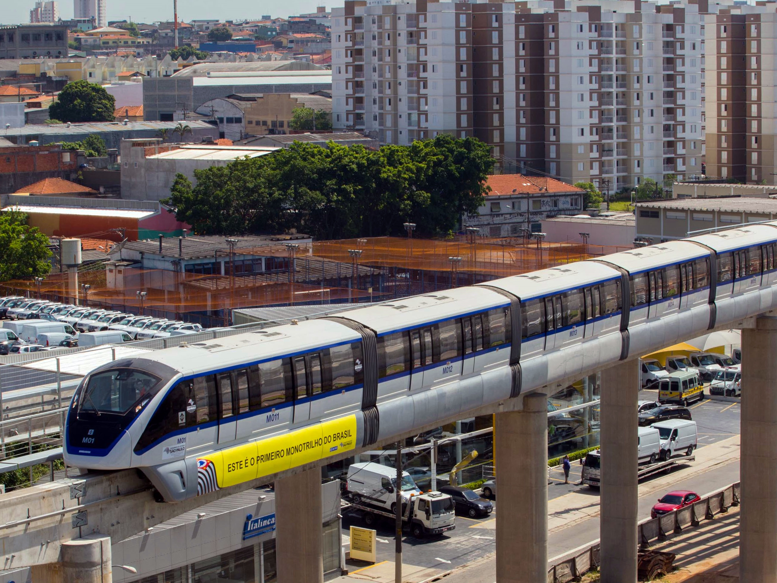 Foi realizada na manhã de sexta-feira (10) uma viagem experimental do monotrilho da linha 15 Prata do Metrô de São Paulo. Foram percorridos 600 metros entre a futura estação Oratório e o Pátio Oratório. DATA: 10/01/2014 LOCAL: São Paulo/SPFOTO: GUILHERME LARA CAMPOS/A2 FOTOGRAFIA